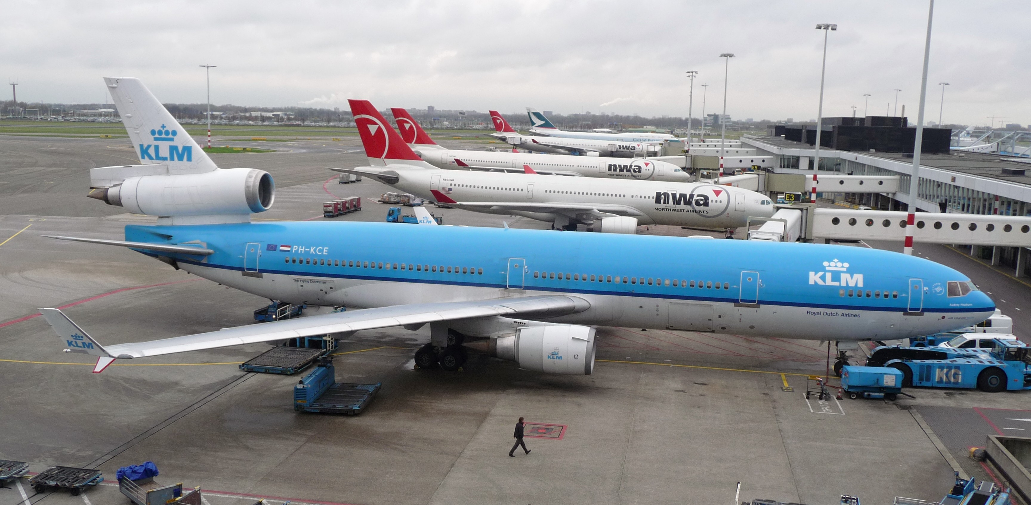 McDonnell Douglas MD-11 Aircraft at Amsterdam Schipol Airport